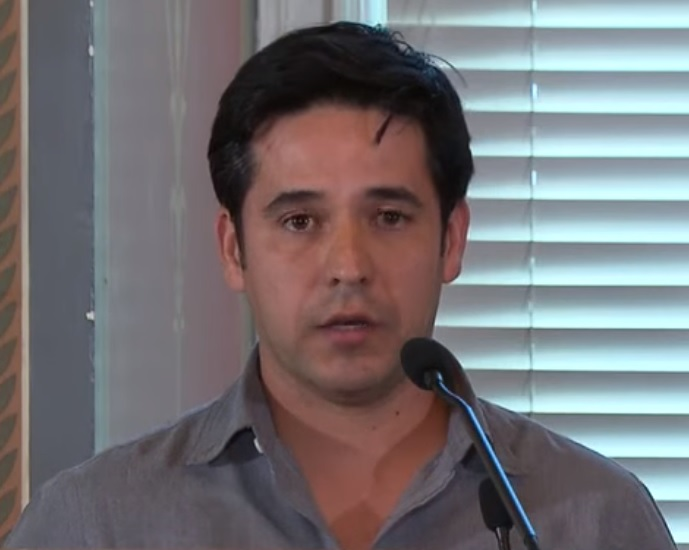 Georgette Dorn retires as chief of the Hispanic Division of the Library of Congress by presenting the 2018 Americas Awards. Ibi Zoboi, author of "American Street," and Duncan Tonatiuh, author and illustrator of "Danza! Amalia Hernández and El Ballet Folklórico de México" were awarded the 2018 Americas Award for Children's and Young-Adult Literature at the annual award presentation. The awards are presented annually to authors of U.S. works of fiction, poetry, folklore or selected non-fiction that authentically portray Latin America, the Caribbean, or Latinos in the United States. For transcript and more information, visit